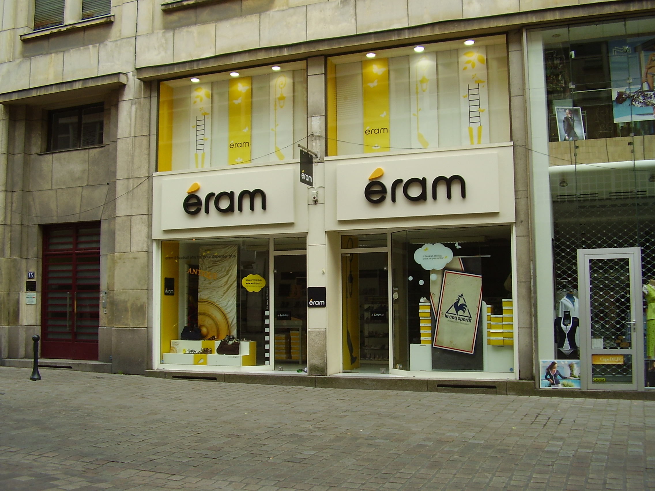 Éram, Nantes